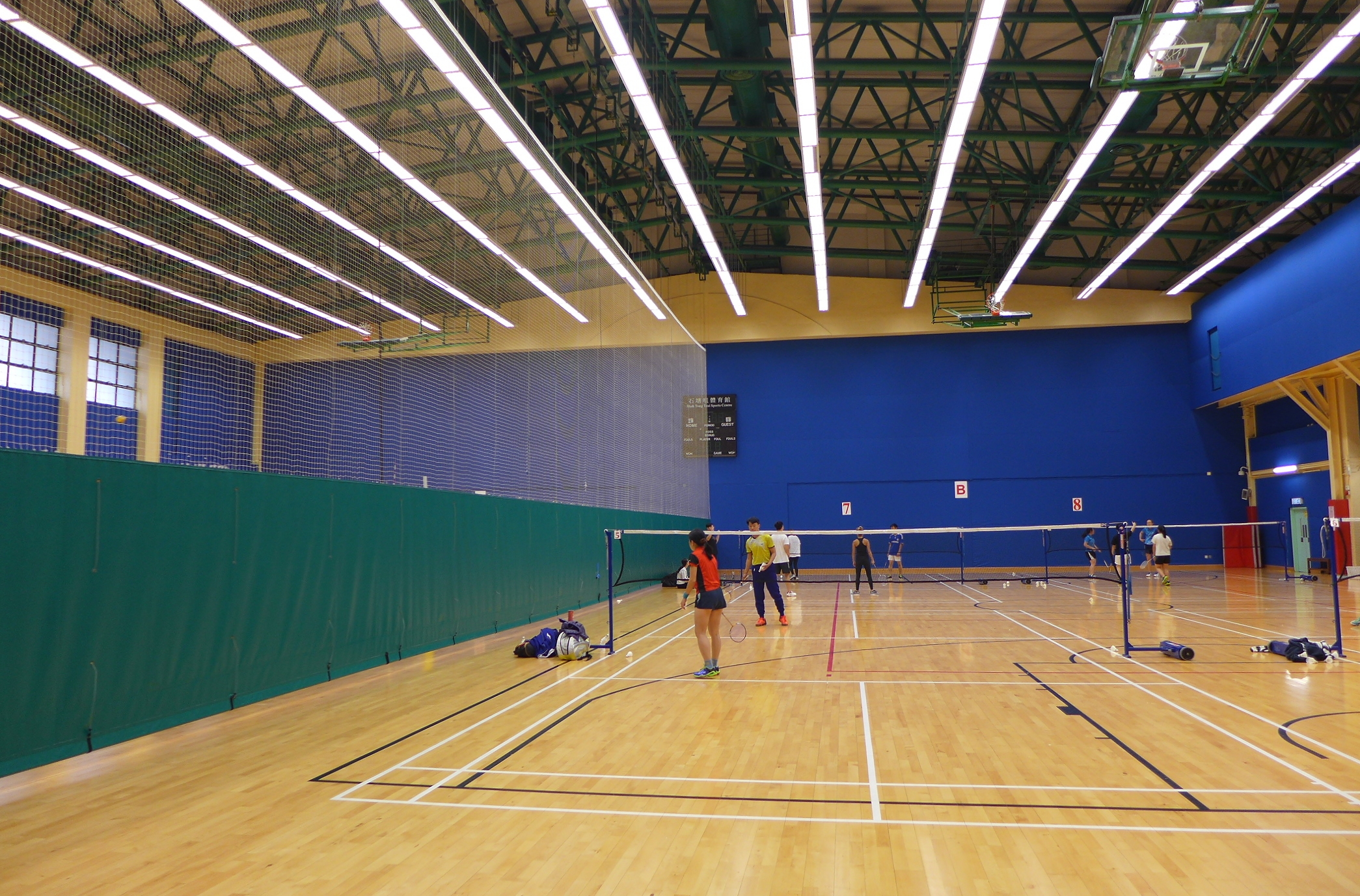 Shek Tong Tsui Municipal Building Sport Centre